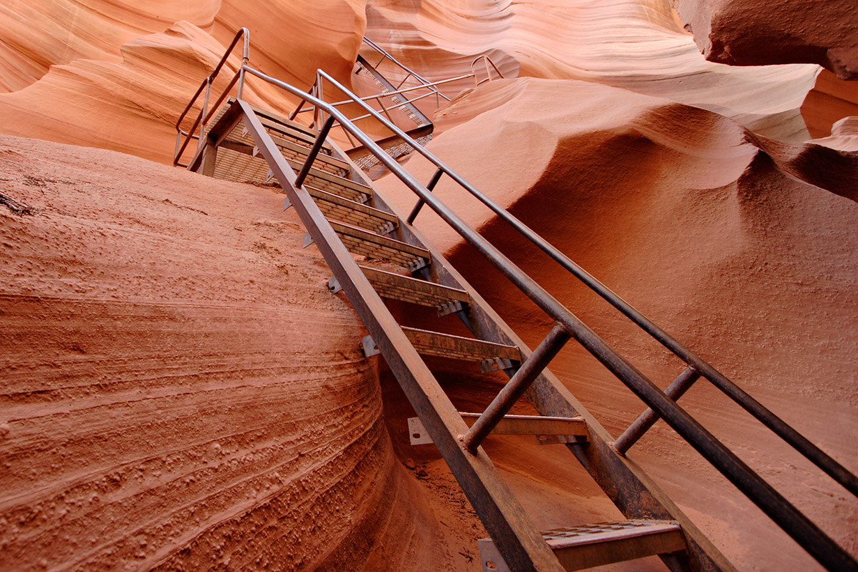 Just some of the stairs leading out of Lower Antelope Canyon